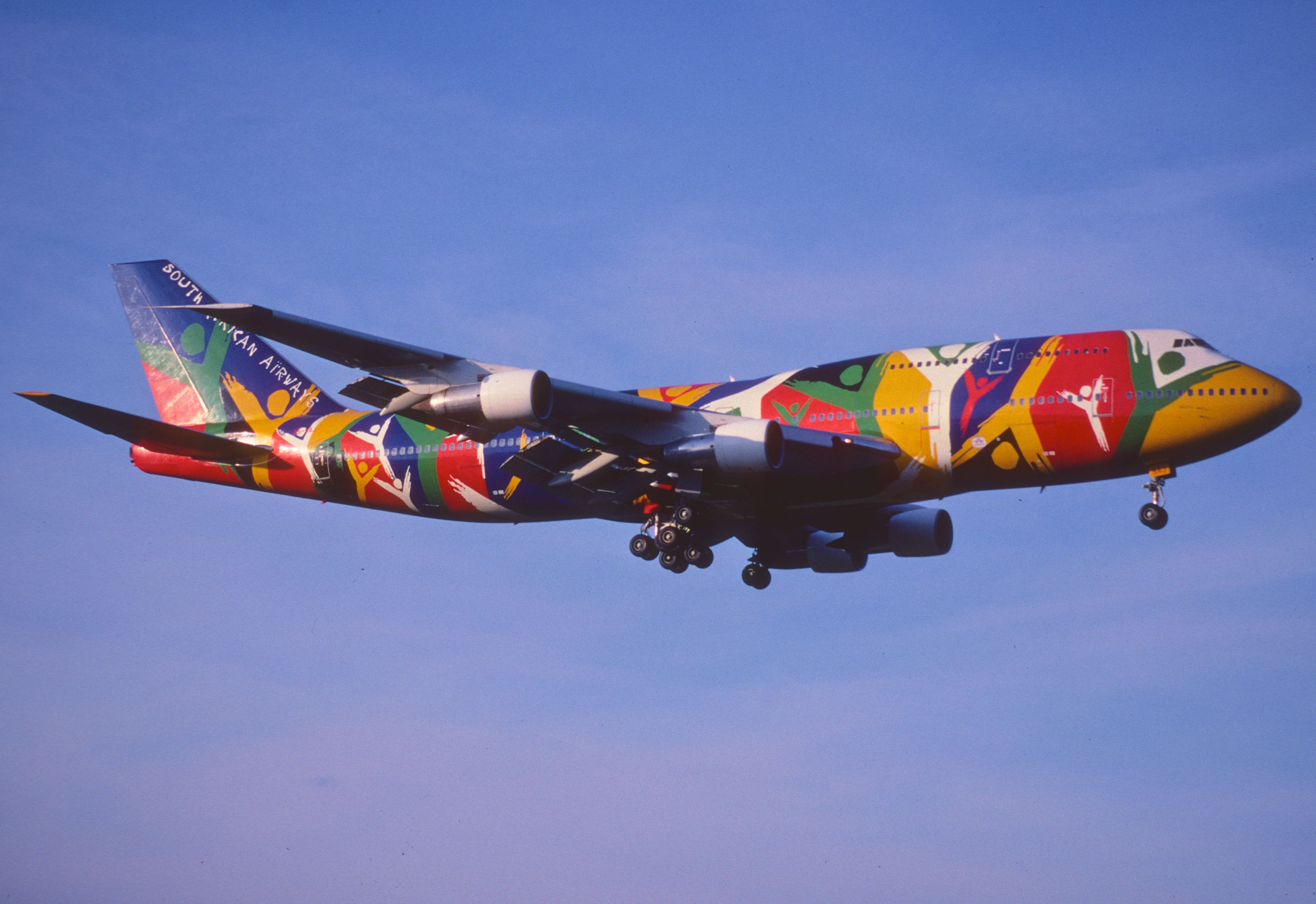 Probably the best coloured 747, if not plane ever, Ndizani on finals to ZRH... This Boeing 747-312 took its first flight on June 12, 1983... 21/06/1983 Singapore Airlines N116KB 12/01/1996 South African Airways ZS-SAJ stored complete at JNB since mid 2004 - Scrapped 11/2009